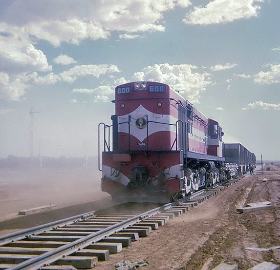 A 600 class ballasting the standard gauge at Jamestown (South Australia), April 1969.